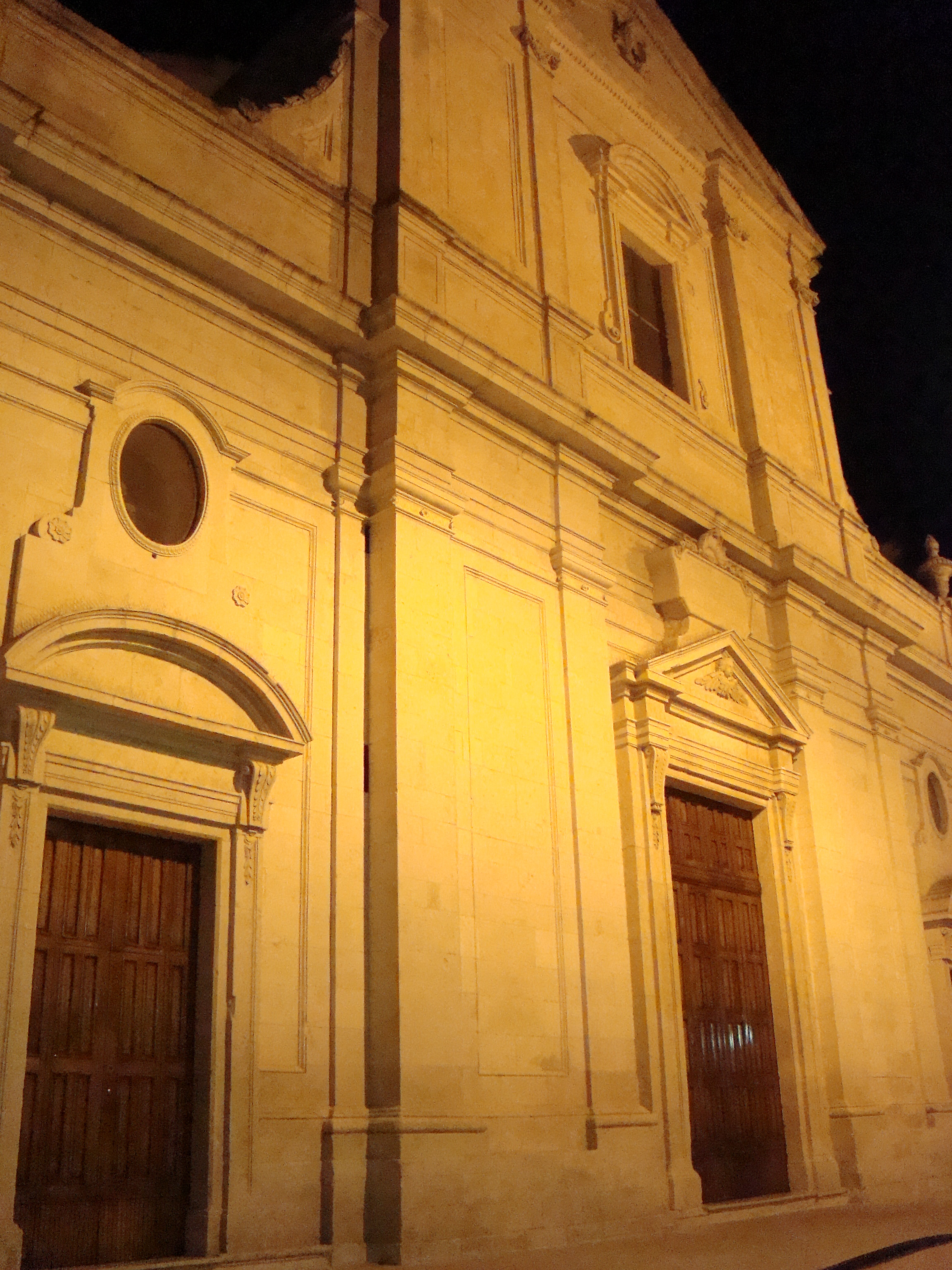 Cathedral in Ceglie Messapica